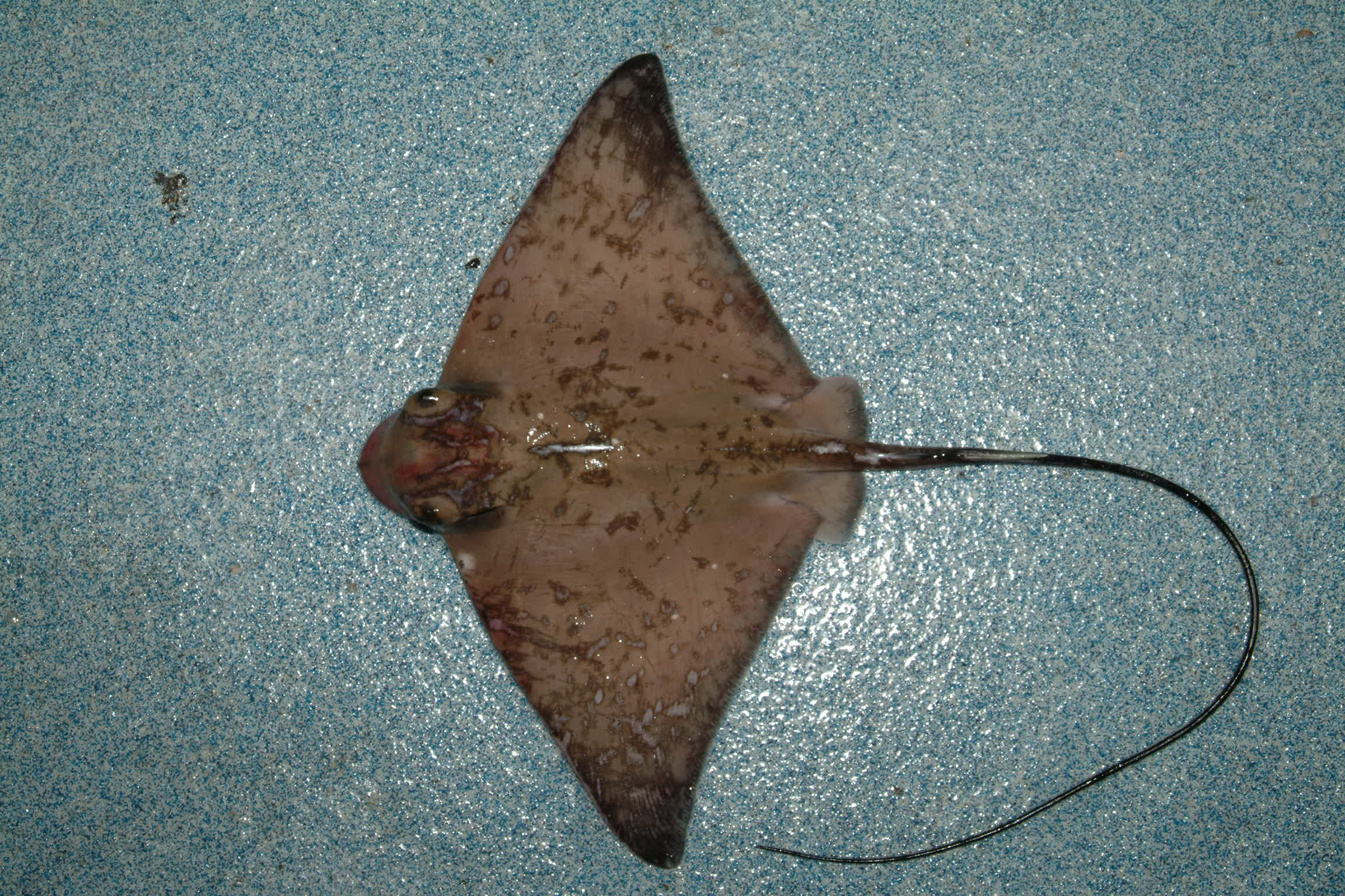 Juvenile bullnose eagle ray (Myliobatis freminvillii). Gulf of Mexico.